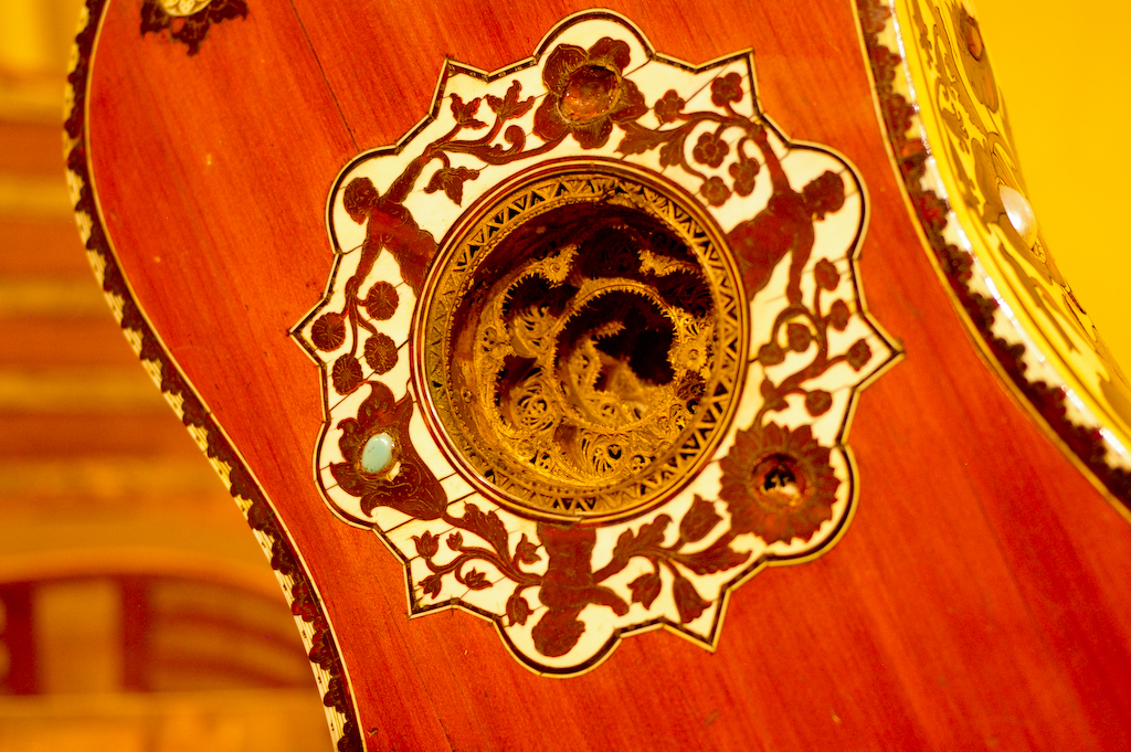 Rosette soundhole five-course guitars (c.1695-1699) by Joachim Tielke, National Museum of American History References Joachim Tielke (ca. 1695–99), “Guitar”, in Heilbrunn Timeline of Art History[1], New York: The Metropolitan Museum of Art, Accession Number: 53.56.3